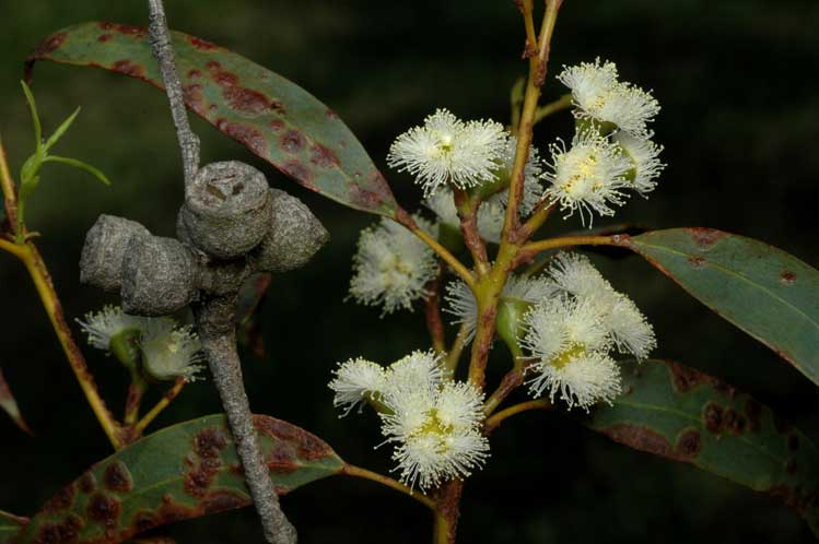 Flowers and fruit of Eucalyptus ebbanoensis in the Mt Annan Botanic Gardens, Campbelltown, New South Wales